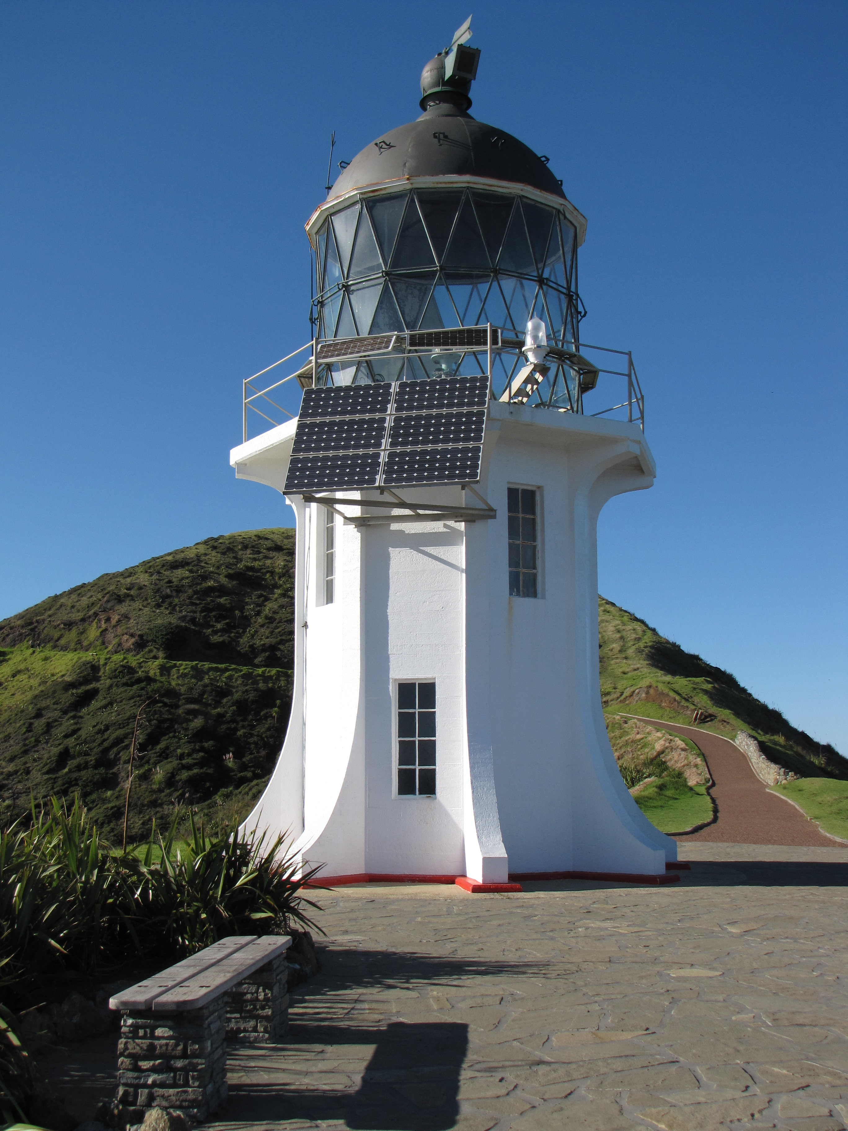 Cape Reinga lighthouse, near the northern most point of the North Island of New Zealand